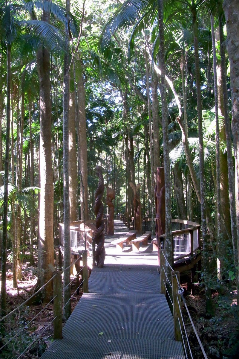 Sea Acres National Park, NSW, Australia Bangalow Palm